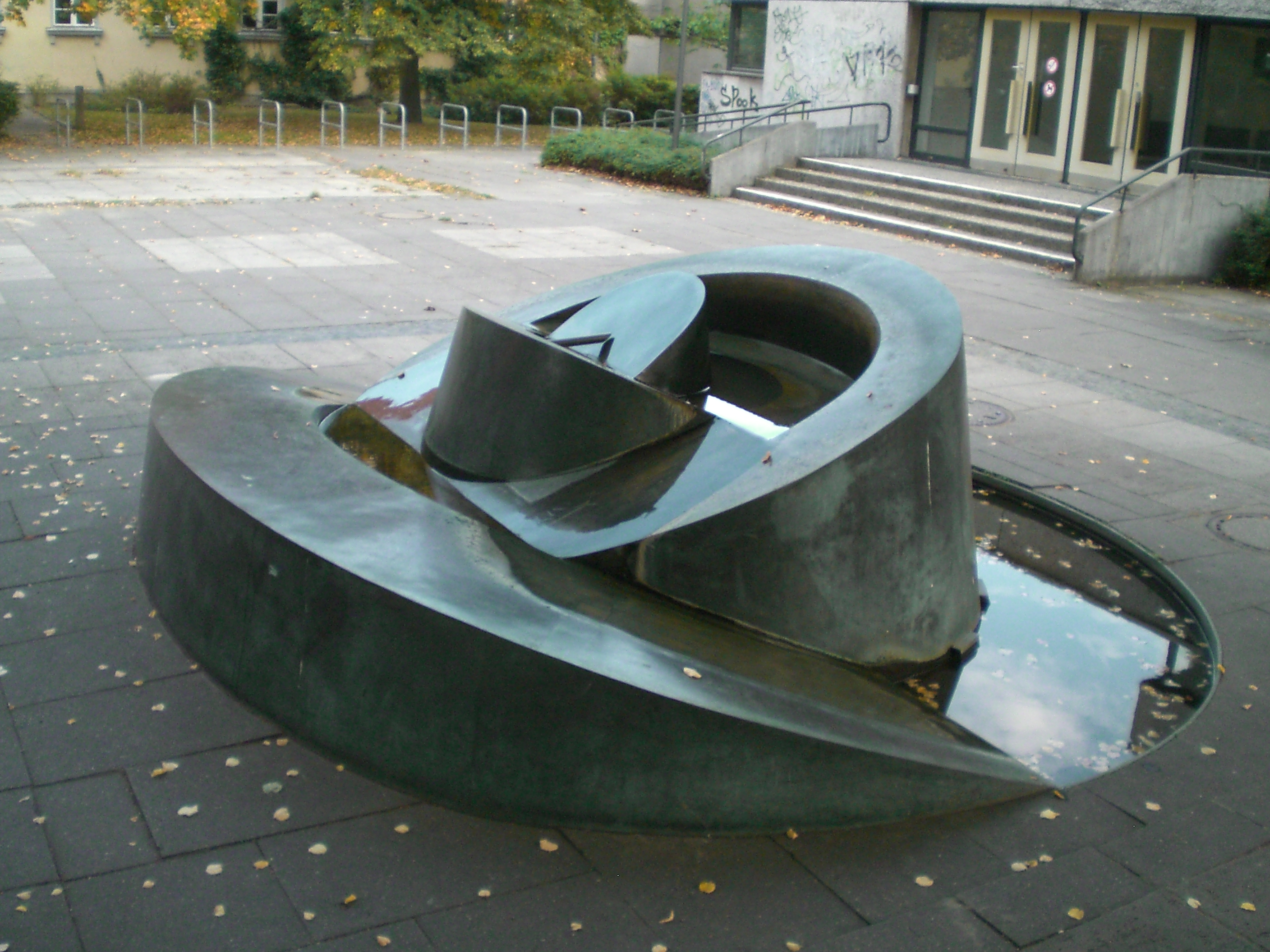 Fountain of Ursula Sax in public space, Berlin-Zehlendorf